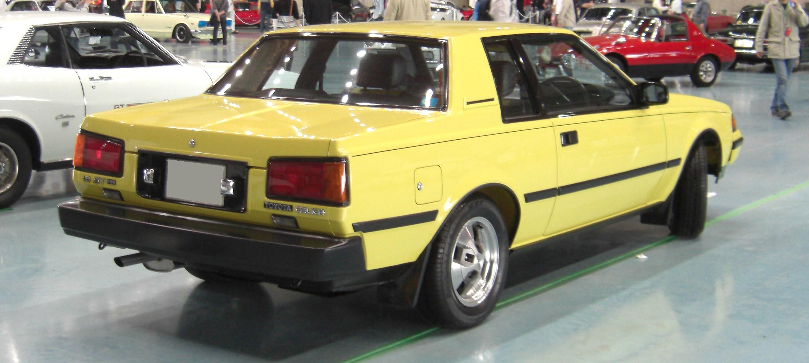 Toyota Celica